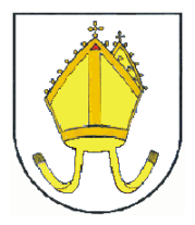 Coat of arms of the provost of Ellwangen